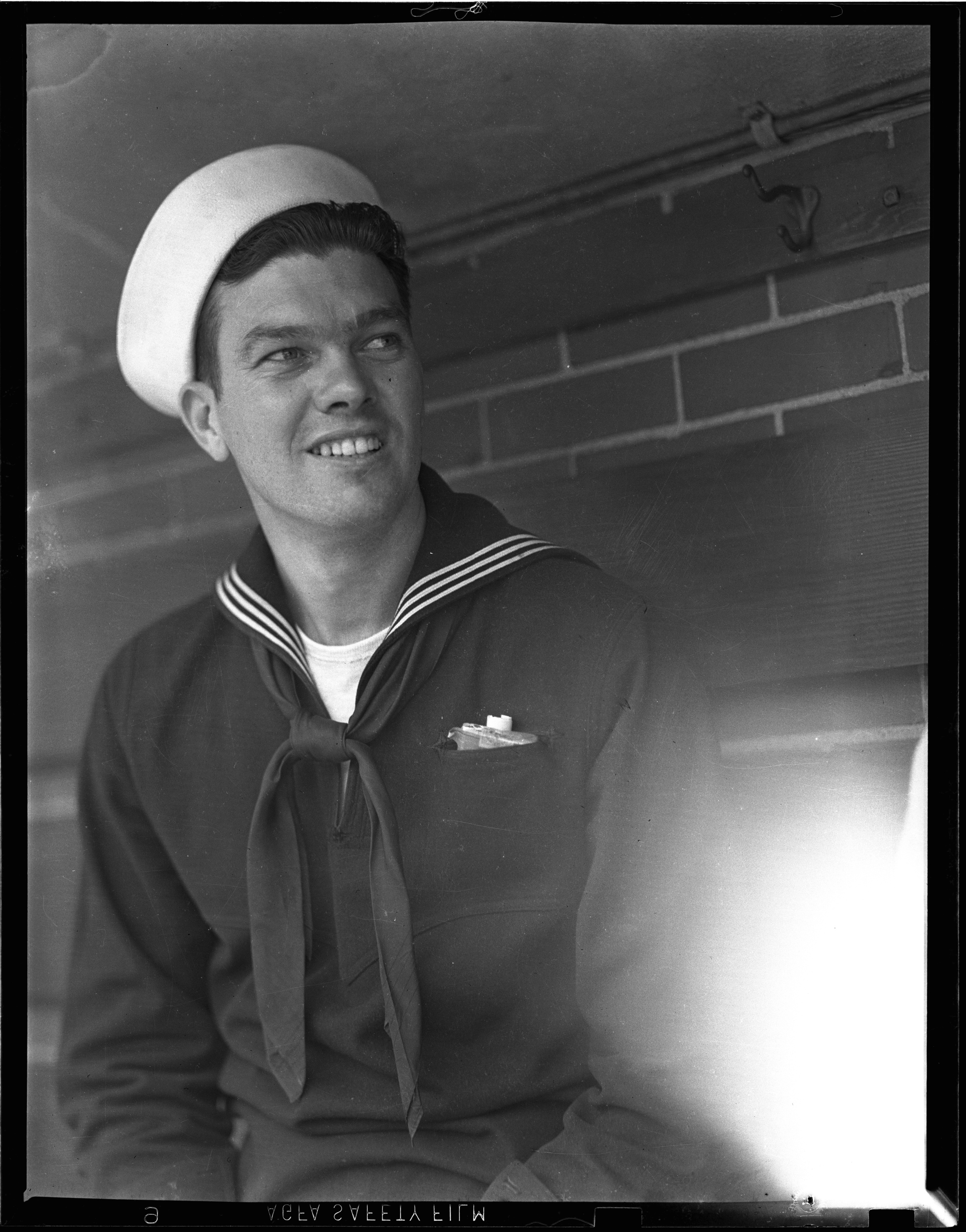 This is a casual photo of George Willard Dickey during his time in the United States Navy ca 1940's